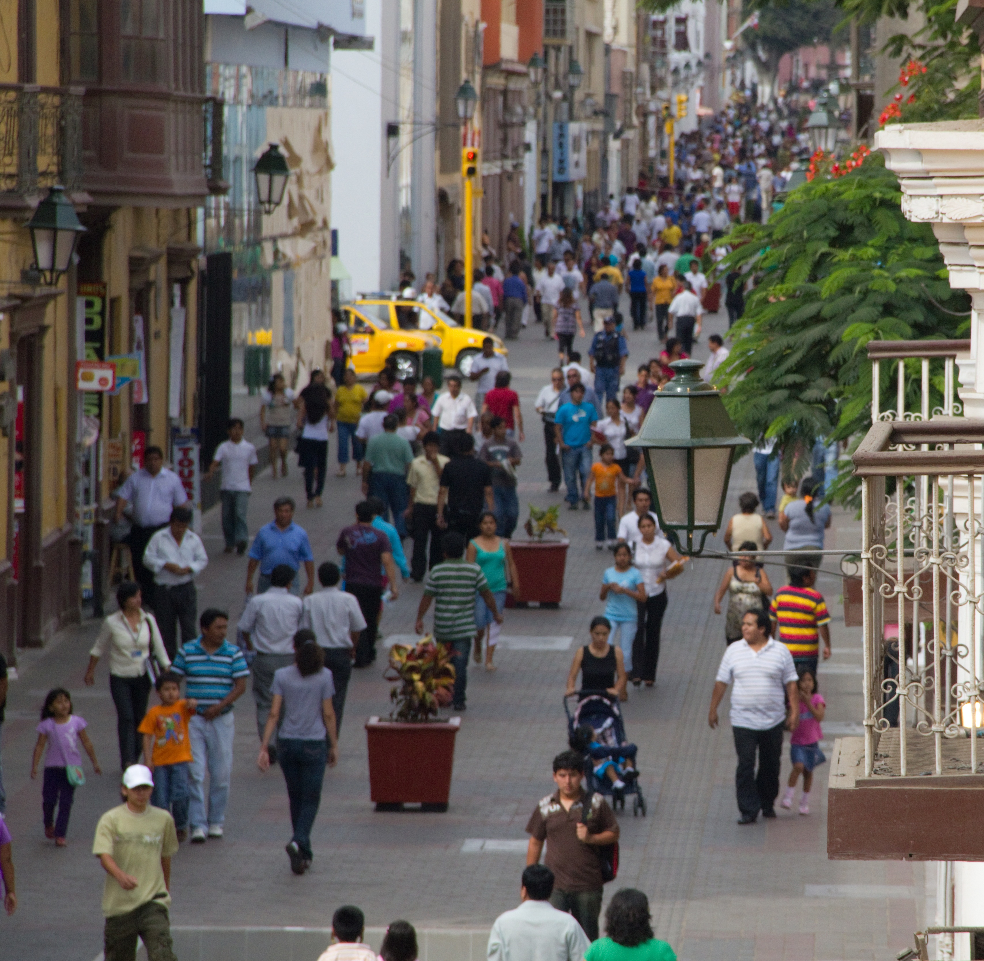 Paseo Peatonal Pizarro, Trujillo